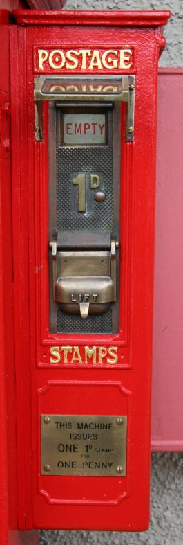 A type A Stamp Vending Machine at the Inkpen Postbox Museum. Photo 23/3/2006 by Kitmaster 12:26, 26 March 2007 (UTC) on EOS10D